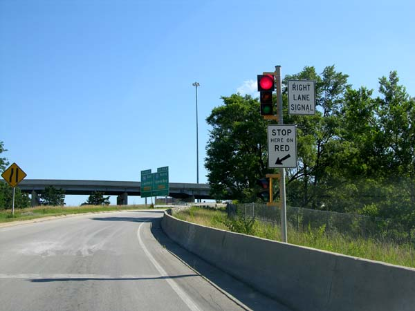 Ramp meter on ramp from Miller Park Way to Interstate 94 east in Milwaukee, Wisconsin, USA